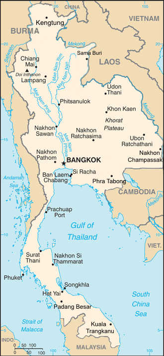 The territories and boundaries of Kingdom of Thailand in World War II.